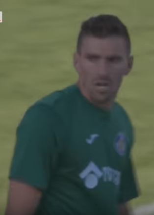 Vicente Guaita of Getafe CF in 2018